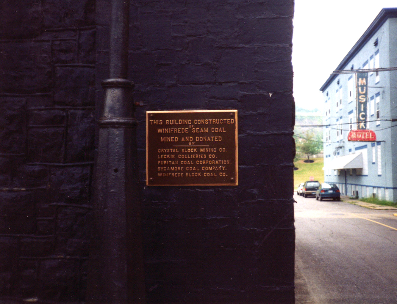 Brass plaque on The Coal House in Williamson, West Virginia, United States.